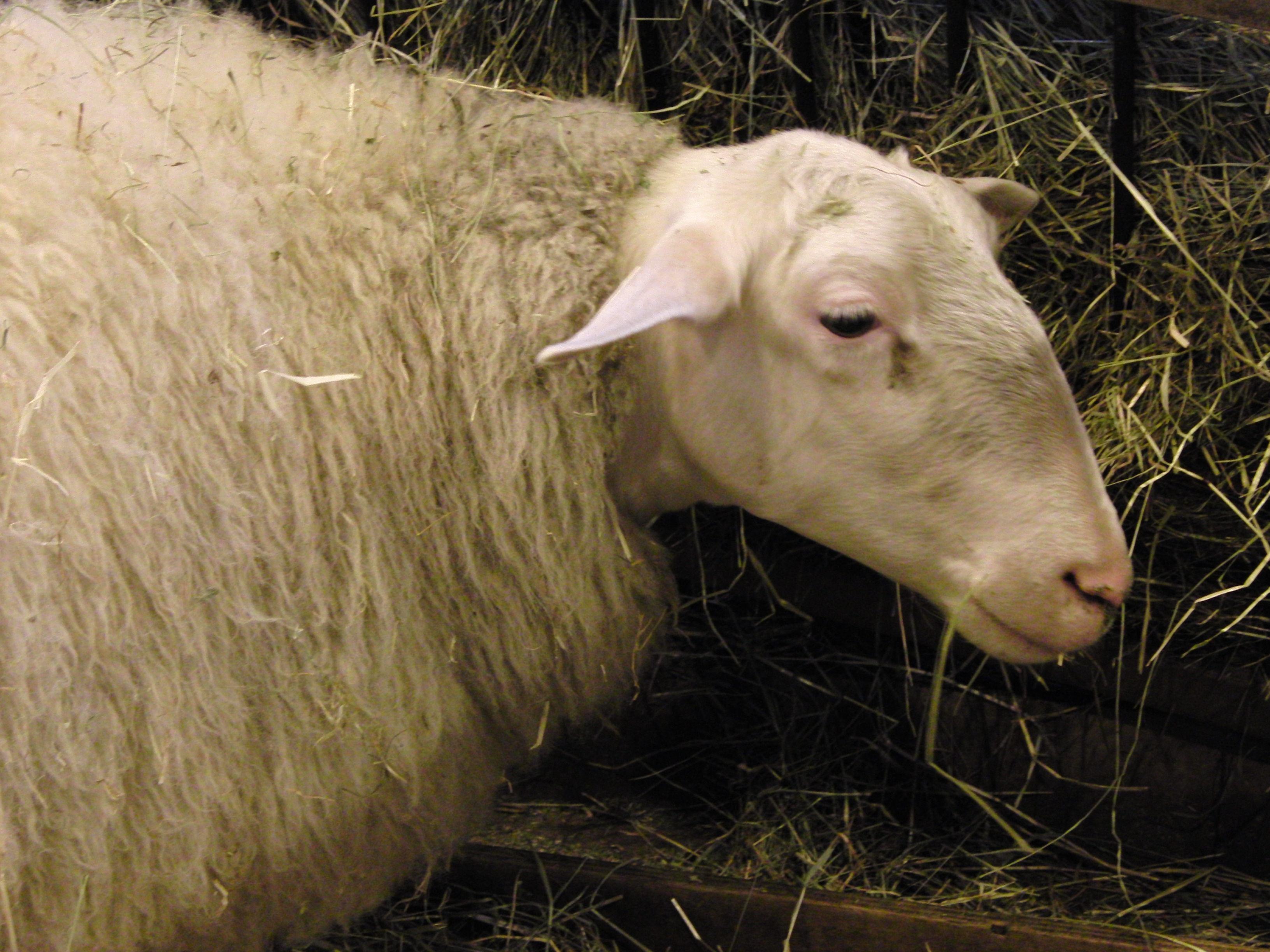 Limousin sheep - Paris International Agricultural Show 2012, Paris, France